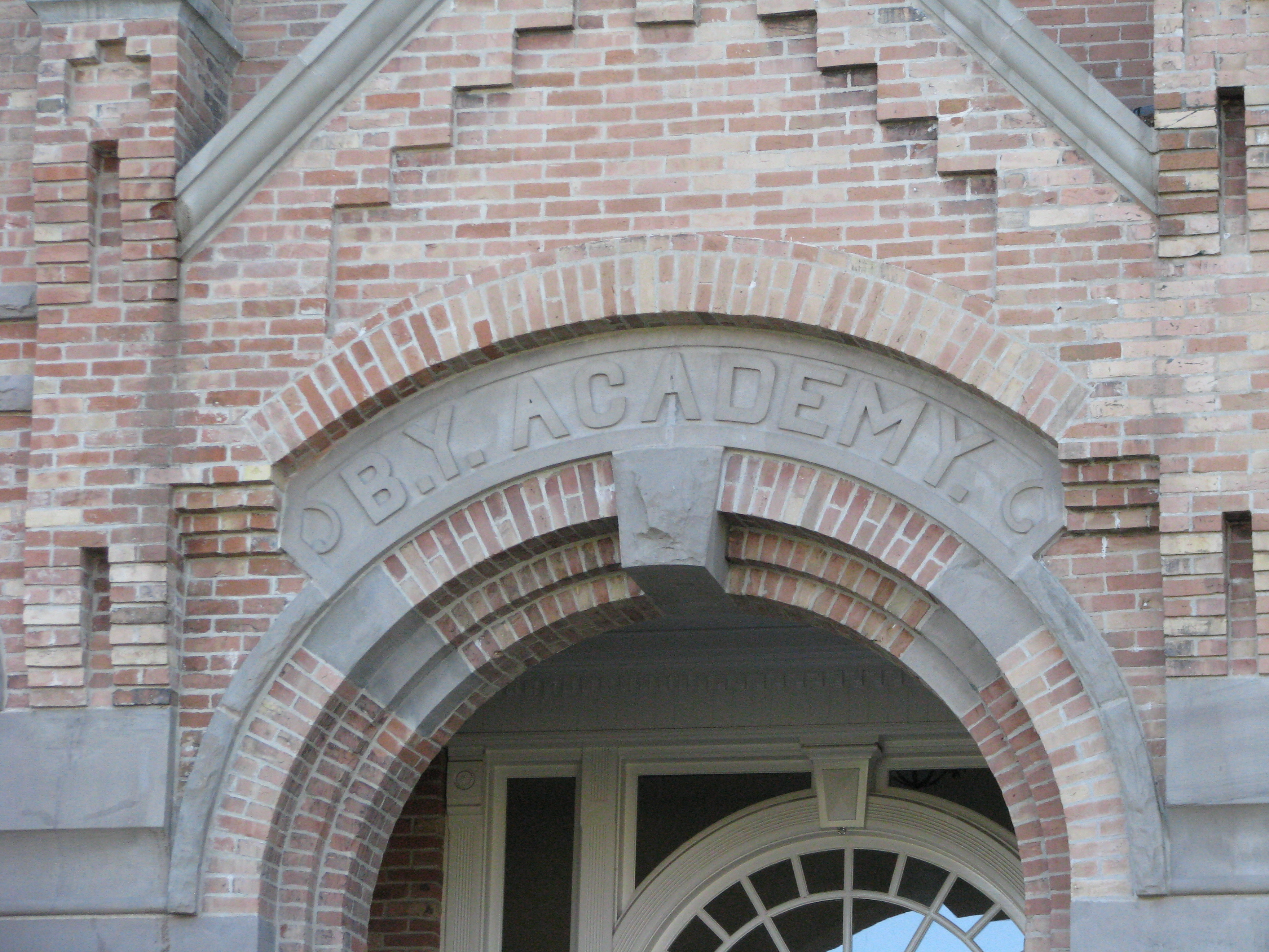 Brigham Young Academy Sign